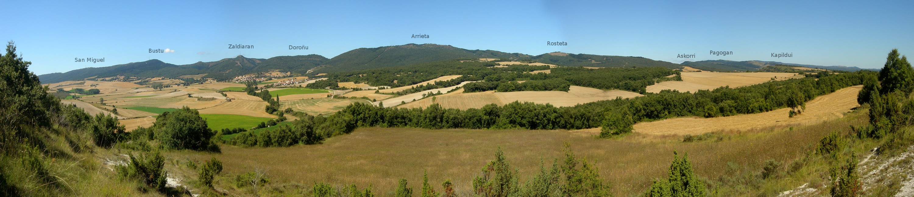 Vitoria-Gasteiz mountain range (Basque Country, Spain)